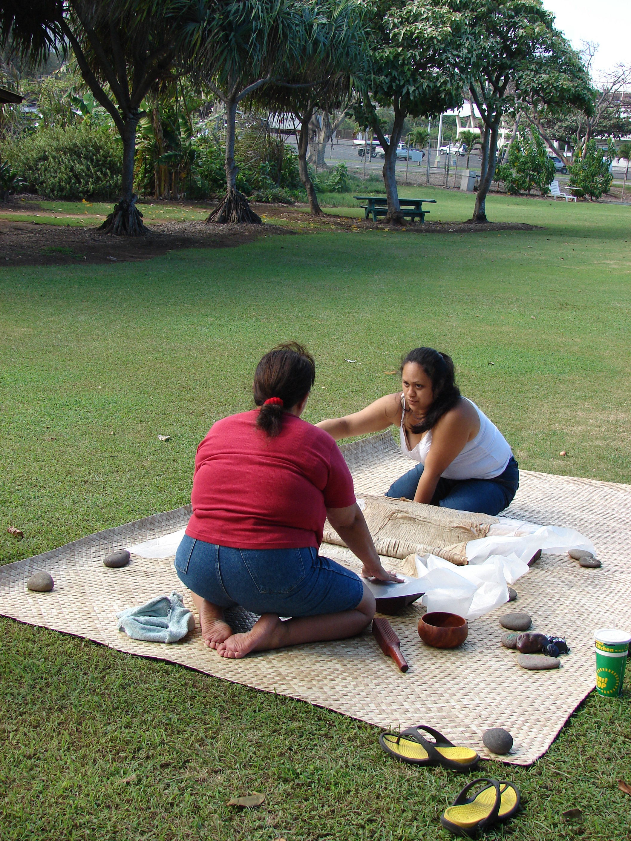 Broussonetia papyrifera (preparing tapa). Location: Maui, Maui Nui Botanical Garden